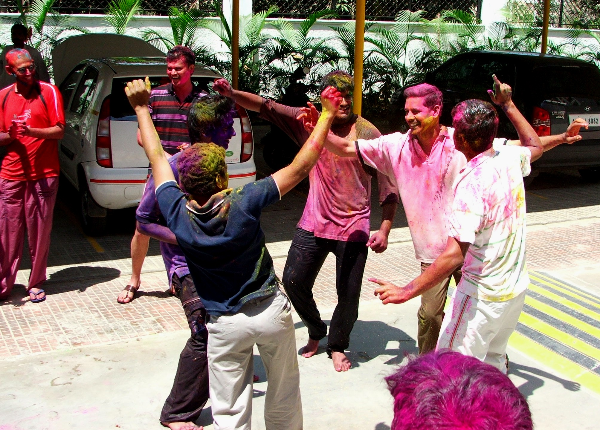 Folks walking around the complex dancing and playing with colors Holi festival, India